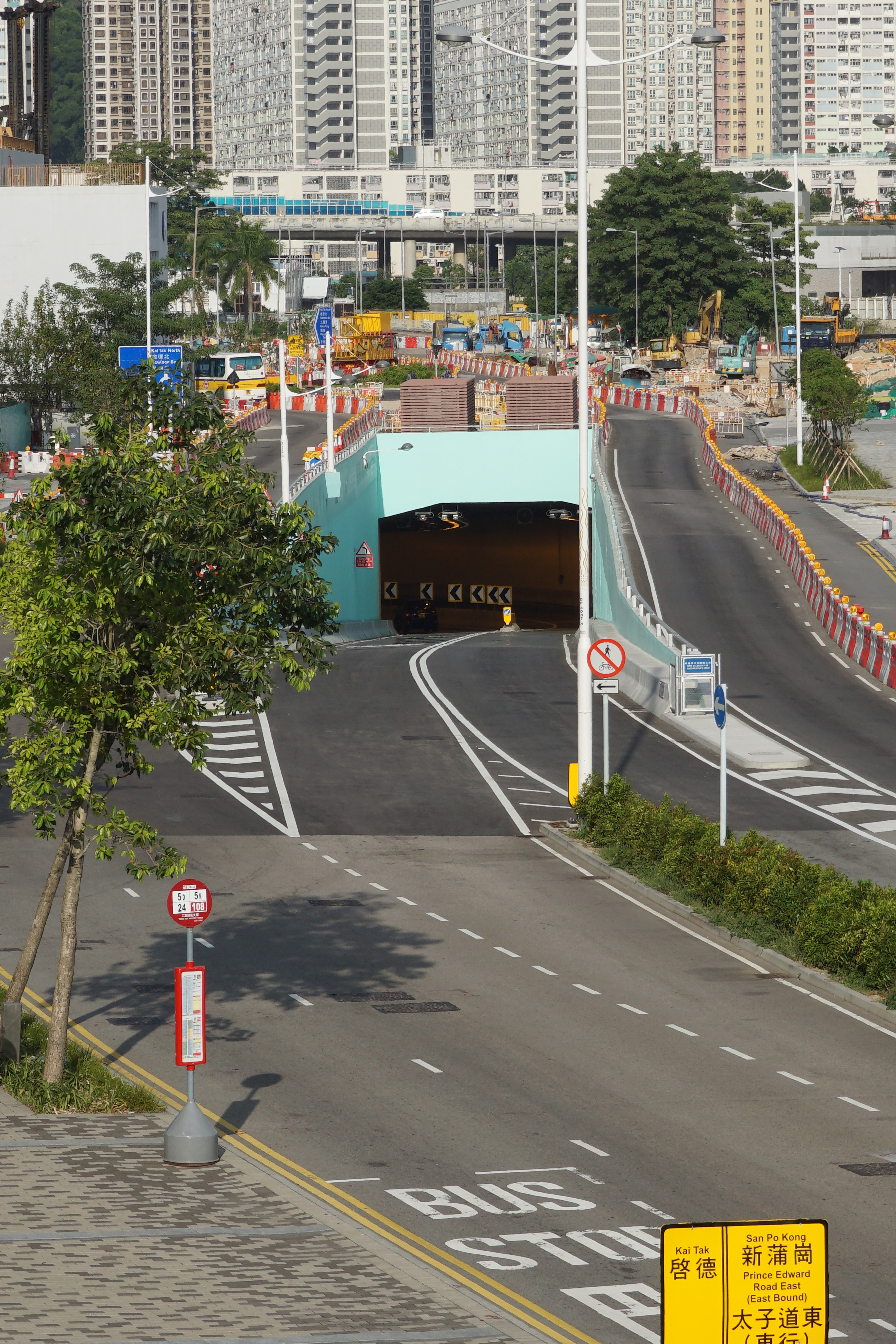 Kai San Road in Kai Tak and San Po Kong, Hong Kong.